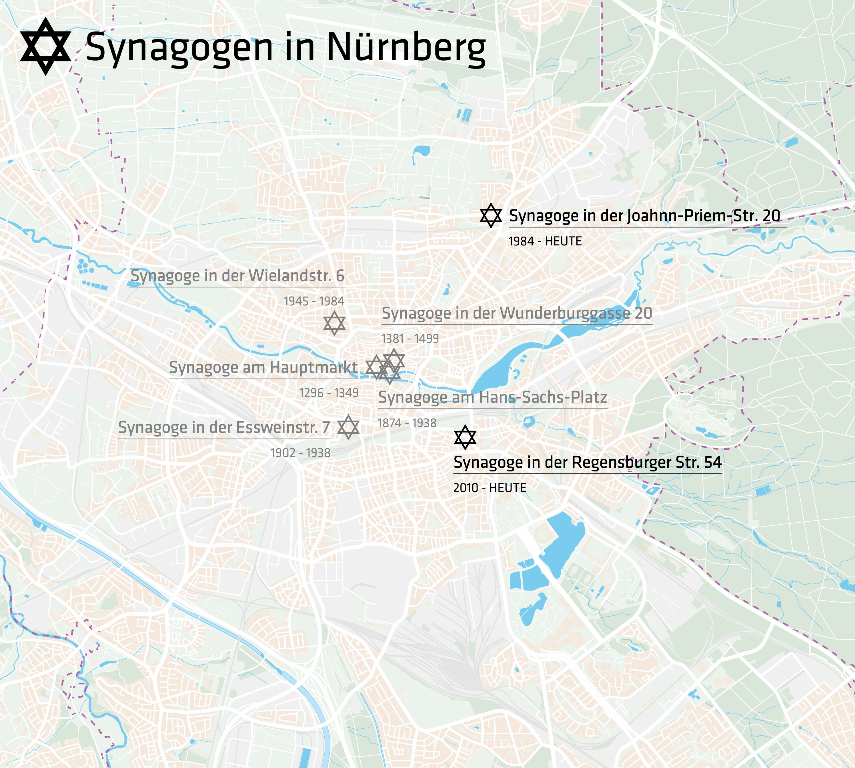 Synagogues in Nuremberg